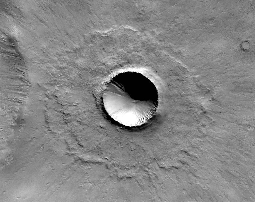 Today's VIS image shows two craters in Terra Cimmeria just north of Kepler Crater. The small crater in the middle of the image is a relatively new crater. The interior rim has gullies, but the bowl shape shows that there has been very little deposition of materials. Additionally, the radial emplacement of thin ejecta is still identifiable, and can be seen in the larger crater in the top of the image. With time the crater floor will flatten due to influx of materials and the subtle radial ejecta will be hidden by dust. While the actual age of the small crater is not known, it is relatively younger than the larger crater. Orbit Number: 66523 Latitude: -44.3019 Longitude: 139.301 Instrument: VIS Captured: 2016-12-12 09:31 Please see the THEMIS Data Citation Note for details on crediting THEMIS images. NASA's Jet Propulsion Laboratory manages the 2001 Mars Odyssey mission for NASA's Science Mission Directorate, Washington, D.C. The Thermal Emission Imaging System (THEMIS) was developed by Arizona State University, Tempe, in collaboration with Raytheon Santa Barbara Remote Sensing. The THEMIS investigation is led by Dr. Philip Christensen at Arizona State University. Lockheed Martin Astronautics, Denver, is the prime contractor for the Odyssey project, and developed and built the orbiter. Mission operations are conducted jointly from Lockheed Martin and from JPL, a division of the California Institute of Technology in Pasadena.